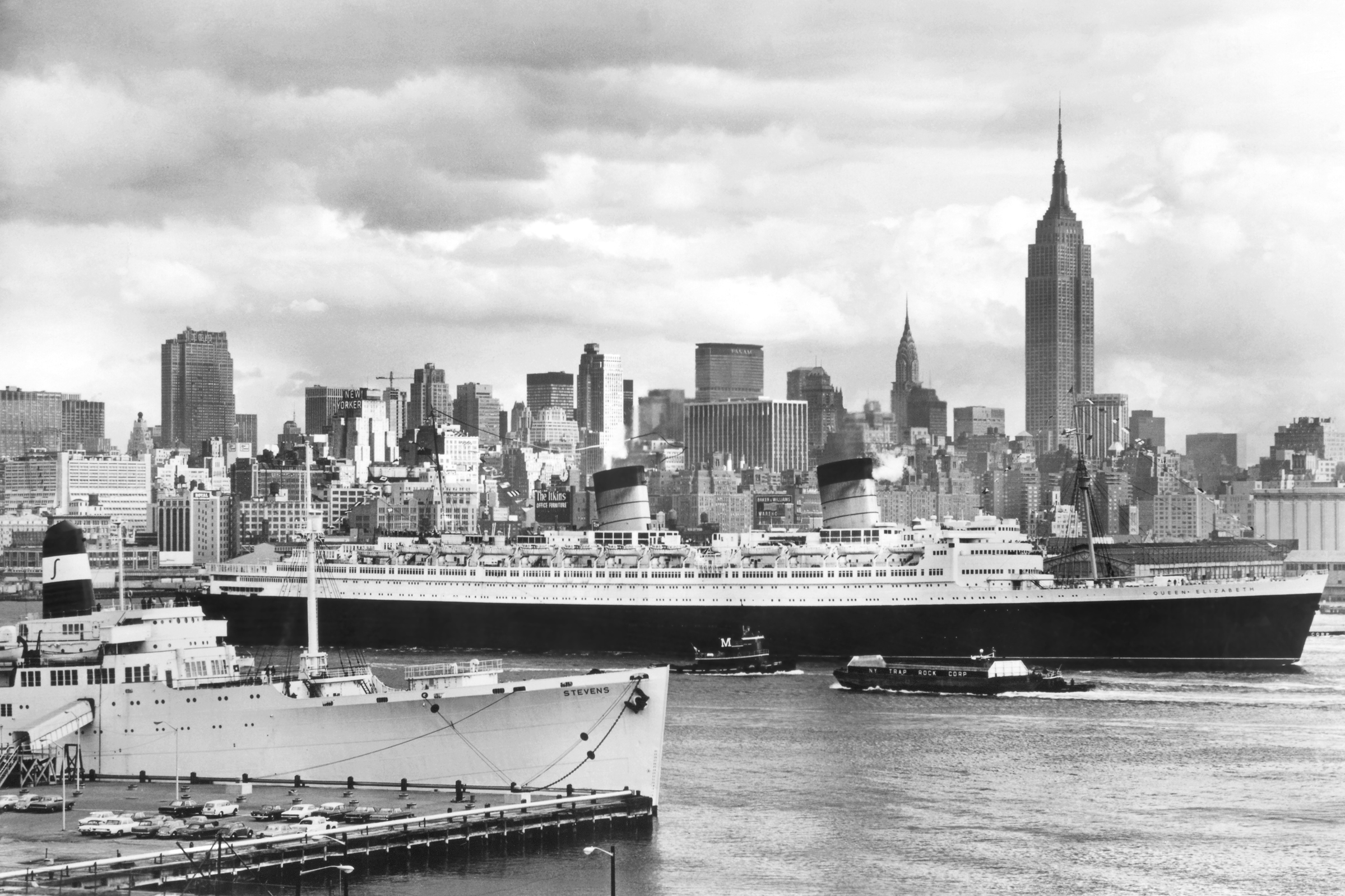 Postcard image of SS Stevens (lower left) and last voyage of RMS Queen Elizabeth, October 30, 1968. SS Stevens was formerly cruise liner SS Exochorda of the New "4 Aces" fleet of American Export Lines This image has been scanned from the original postcard. For other SS Stevens photos, see SS Stevens Gallery